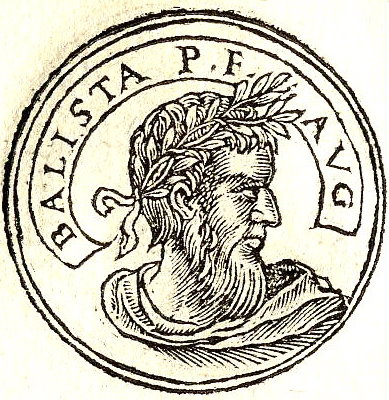 Balista or Ballista (d. c. 261), also known in the sources with the probably wrong name of "Callistus", was one of the Thirty Tyrants of Historia Augusta, and supported the rebellion of Macriani against Emperor Gallienus.